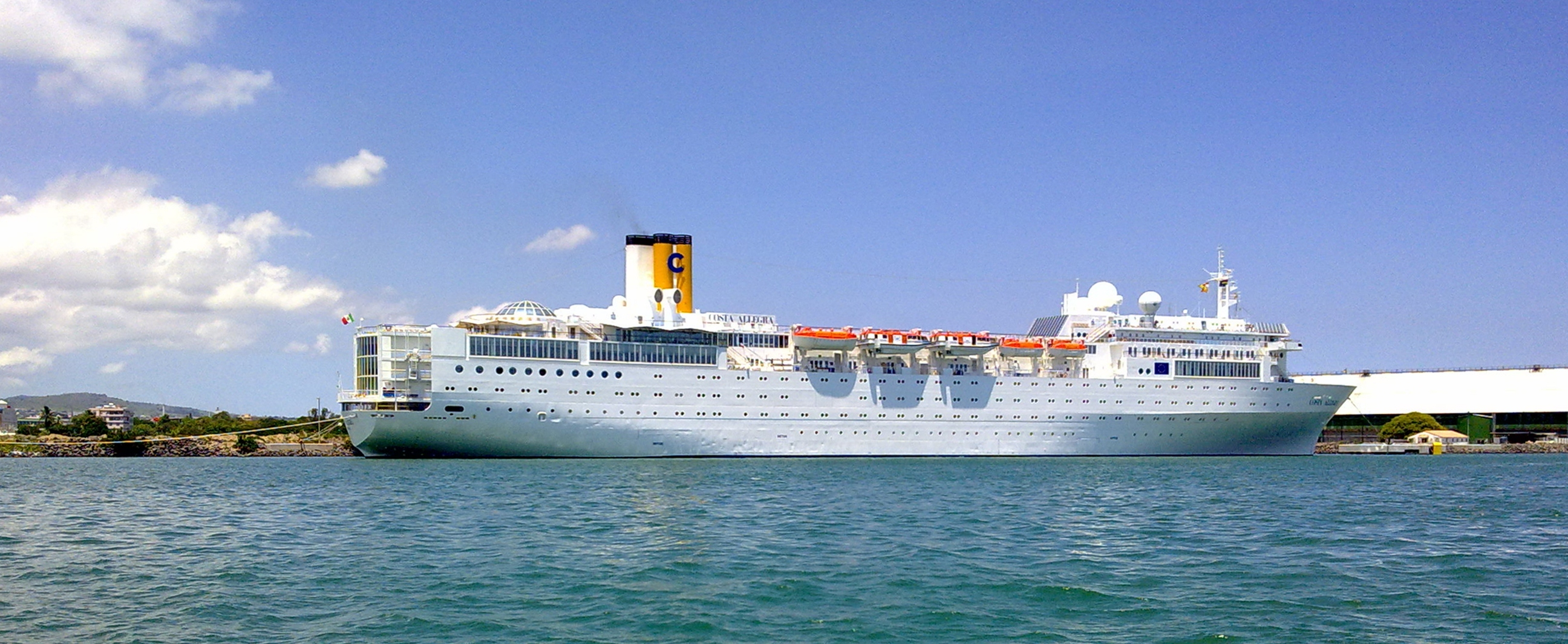 Costa Allegra berthed at Cruise Jetty in Port Louis harbour